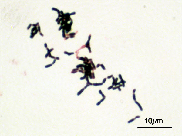 microscopic image of Bifidobacterium adolescentis ATCC 15703. Gram staining, magnification:1,000.